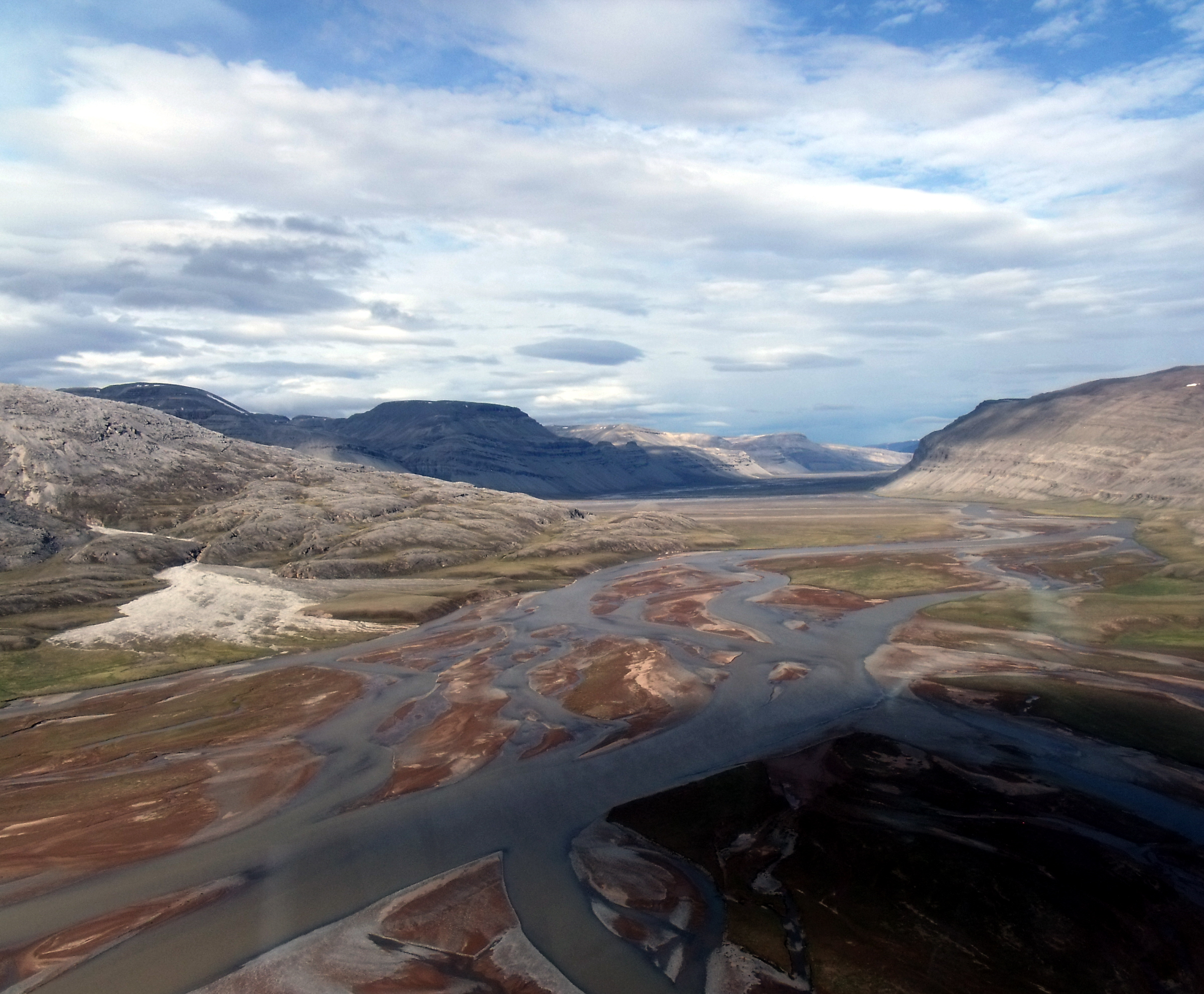 Erosion of Proterozoic redbed evaporitic rocks throws iron stain into Mala River sediments. Photo taken during an aerial ferry between Pond Inlet and Arctic Bay, flying due west through a glacially carved valley and shooting through the helicopter's front bubble window. Glaciers still occupy some the higher ground on the Borden Peninsula. The waters of larger drainages are derived from winter snowpack, permafrost and glacial melt. The wide-ranging Inuit now settled into Pond Inlet and Arctic Bay travel widely during winter along these valleys. Every major feature, places of good hunting or fishing and campsites throughout a long-occupied Arctic has an Inuit name. Canada`s cartographers simply haven`t caught up.